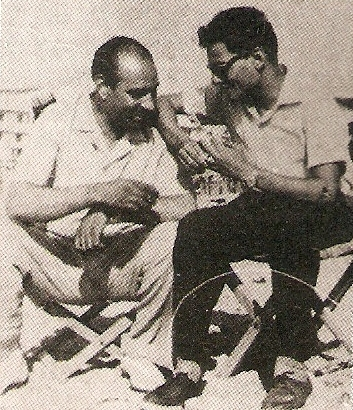 Abdel Halim Hafez (right) with Kamal at Taweel meeting for the first time.